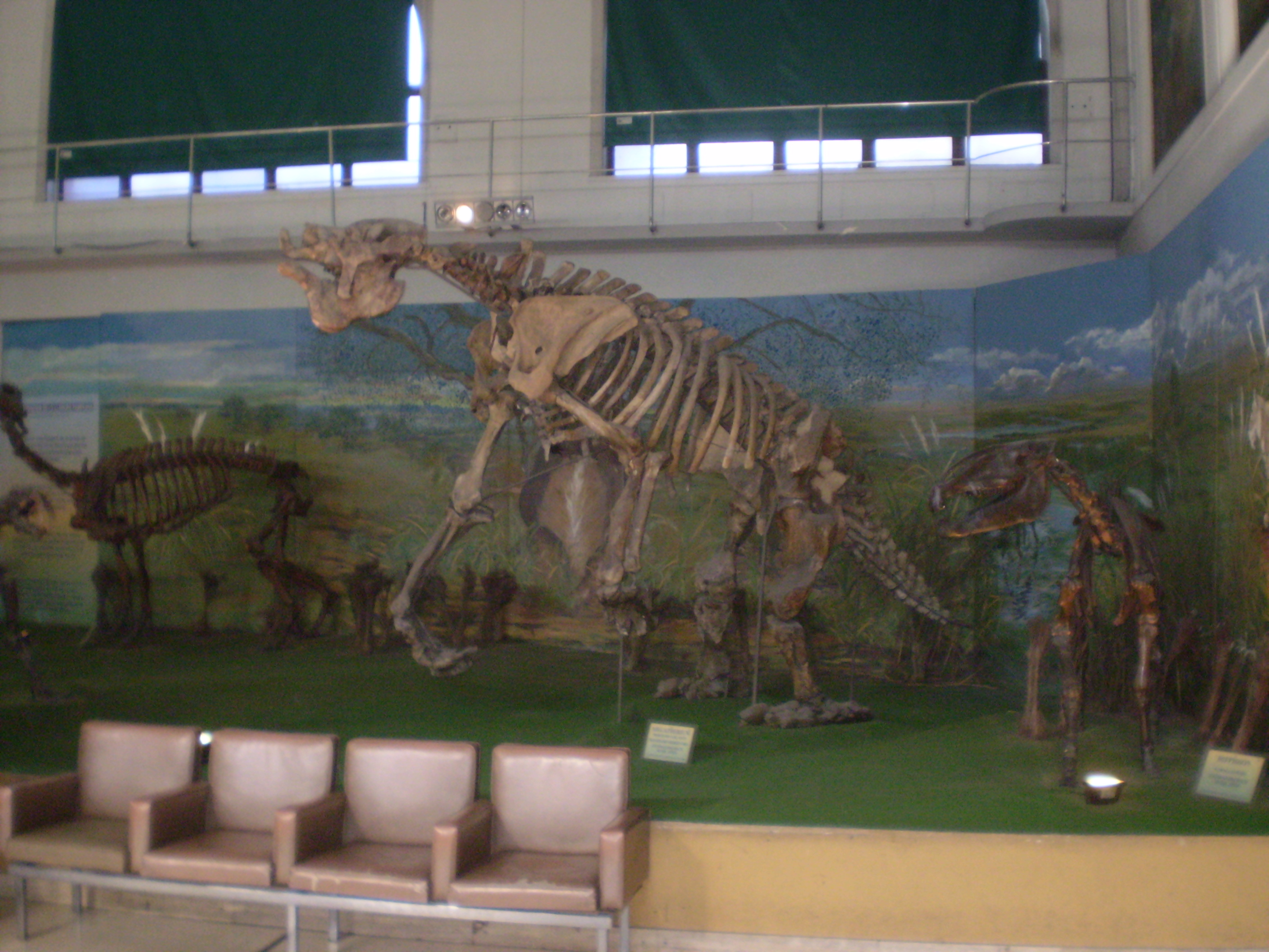 Bernardino Rivadavia Natural Sciences Argentine Museum, hall of paleontology.